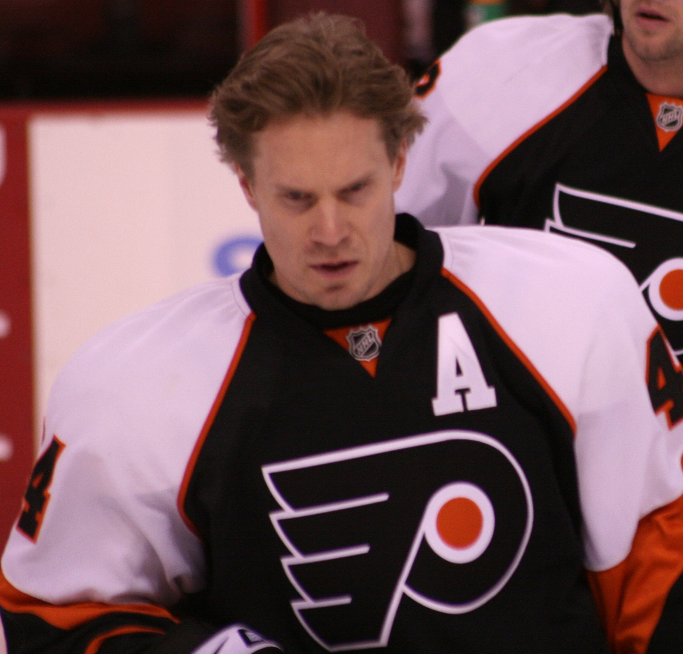 Two Philadelphia Flyers player: ahead Finnish defender Kimmo Timonen (44, A) and behind Canadian forward Simon Gagne (12, A)